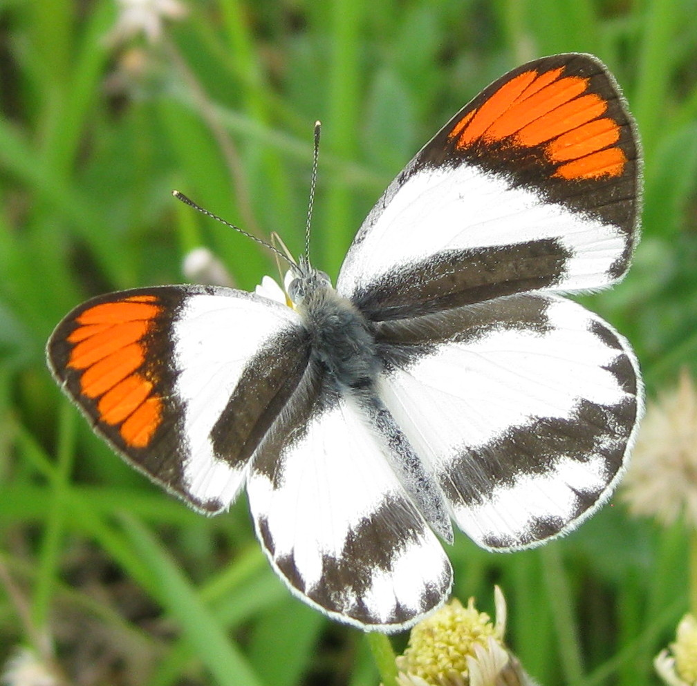 Probably Colotis euippe (Smoky Orange Tip).